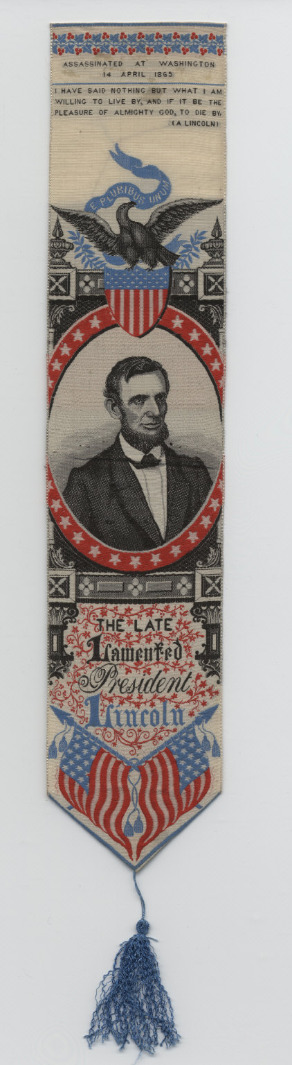 Collection: Cornell University Collection of Political Americana, Cornell University Library Repository: Susan H. Douglas Political Americana Collection, #2214 Rare & Manuscript Collections, Cornell University Library, Cornell University Title: "The Late Lamented President Lincoln" Memorial Ribbon, ca. 1865 Political Party: Republican Date Made: ca. 1865 Measurement: Ribbon: 11 1/2 x 2 1/8 in.; 29.21 x 5.3975 cm Classification: Costume Persistent URI: There are no known U.S. copyright restrictions on this image. The digital file is owned by the Cornell University Library which is making it freely available with the request that, when possible, the Library be credited as its source.